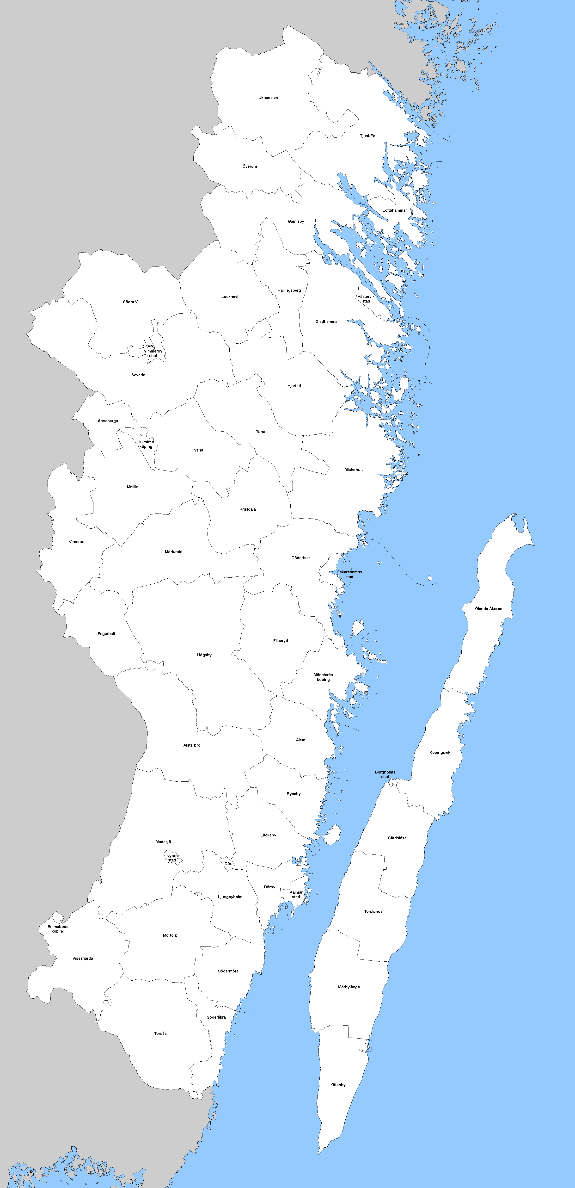 Old municipalities of Kalmar län. (1952)